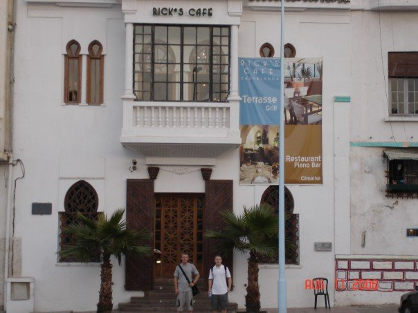 The outside of Rick's Cafe, Casablanca, Morocco